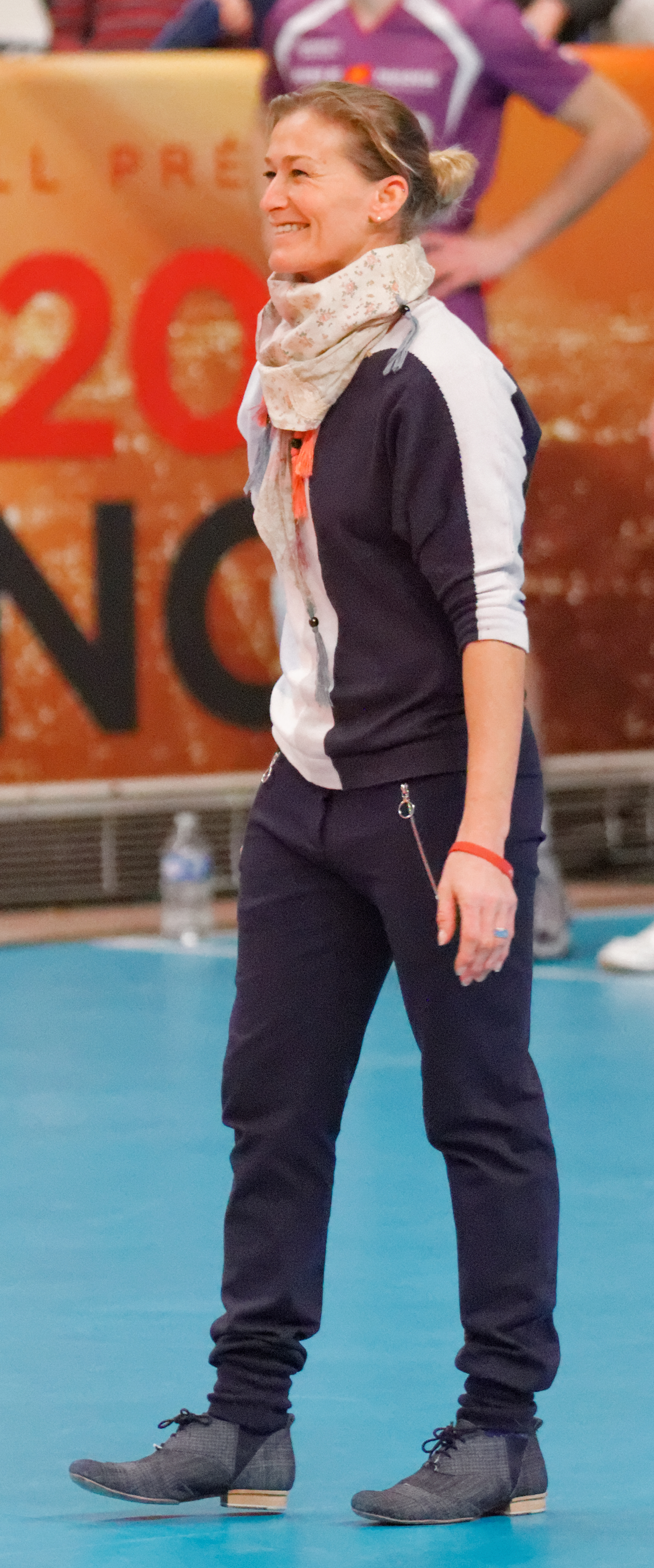 Final of the Volleyball French Cup, Tours Volley-Ball - Spacer's Toulouse Volley, March 30, 2013. Frédérique Jossinet.